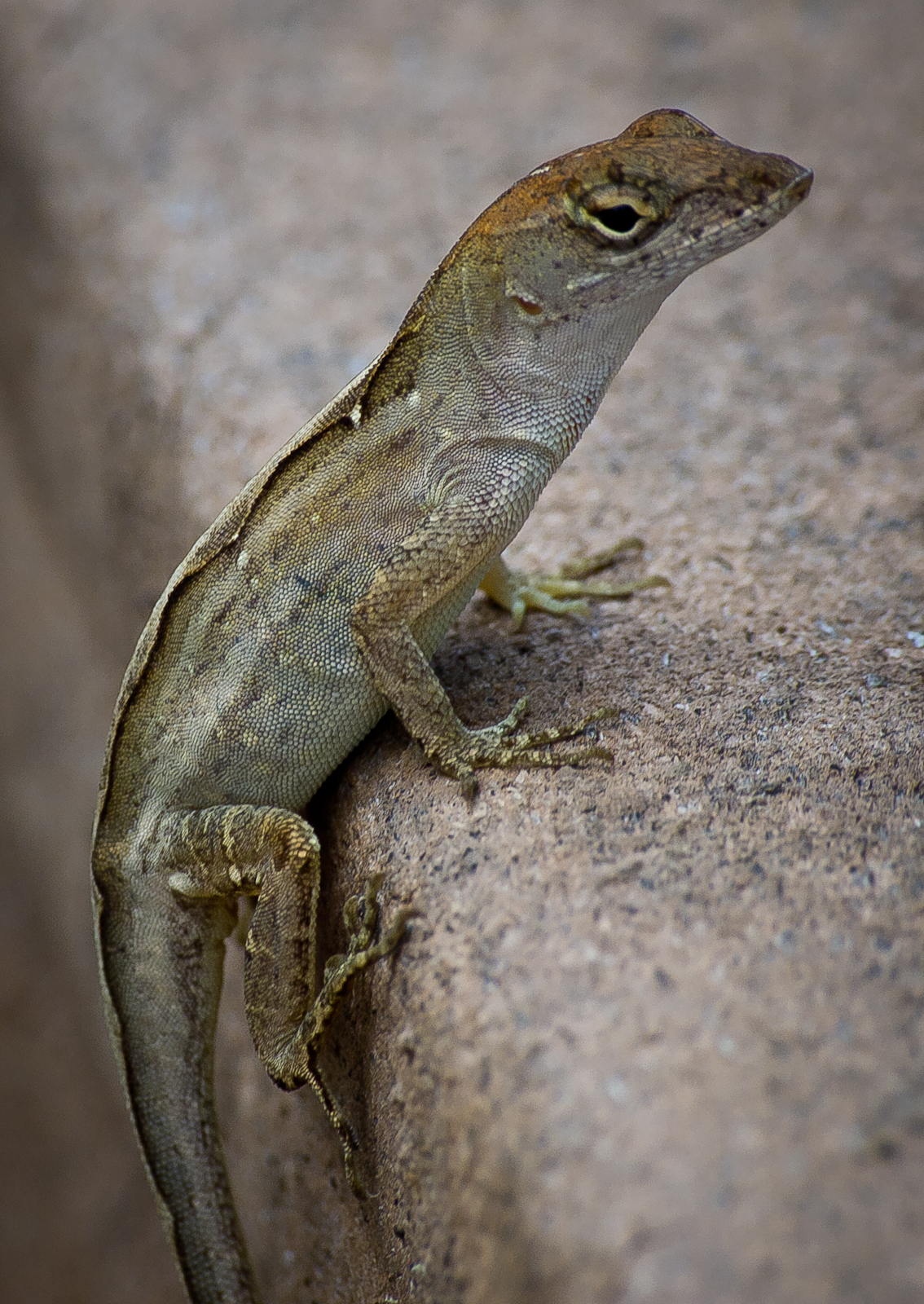 A Brown Anole lizard (Anolis sagrei). Photo taken with an Olympus E-5 in the Merritt Island National Refuge, FL, USA. Cropping and post-processing performed with The GIMP.